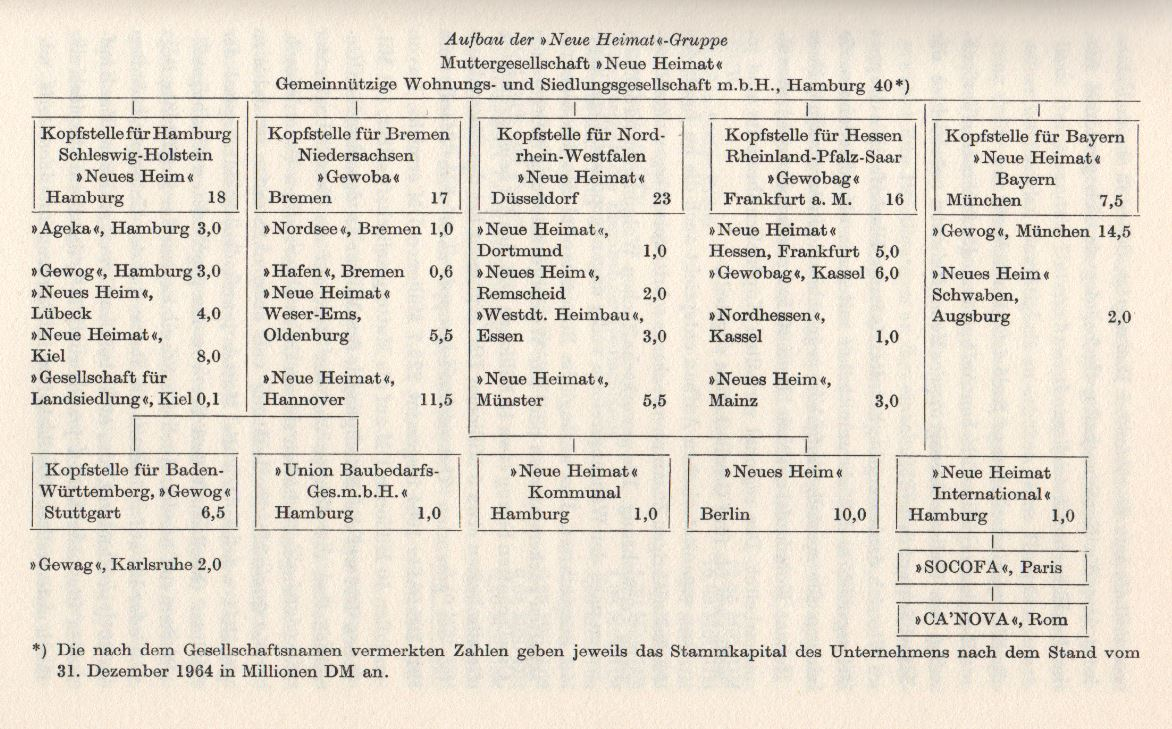 former big Housing Organisation NH "Neue Heimat" of german Labourors-Union-Holding DGB. Organigramm from 1964, in Kurt Hirche, Die Wohnungsunternehmen der Gewerkschaften", page 239, NH was privatized and sold out in 1986